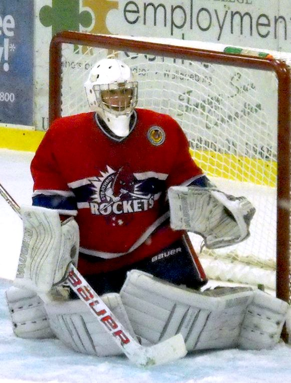 This photo was taken by Devan Mighton during the 2013-14 GOJHL season.